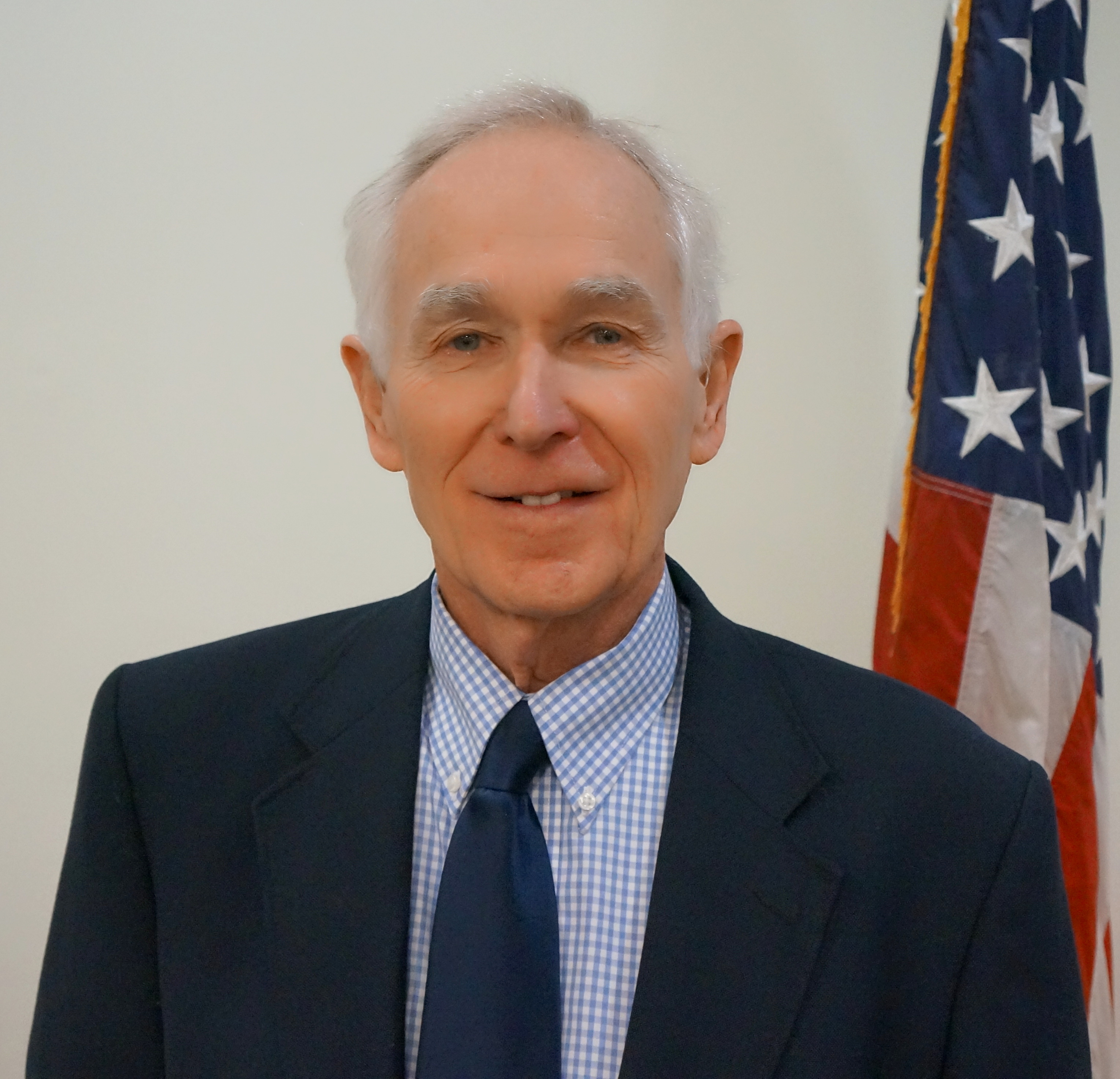 On May 8, 2015, Professor John Ferling at the Treasury Executive Institute teaching Treasury executives about management and the United States Revolutionary War.